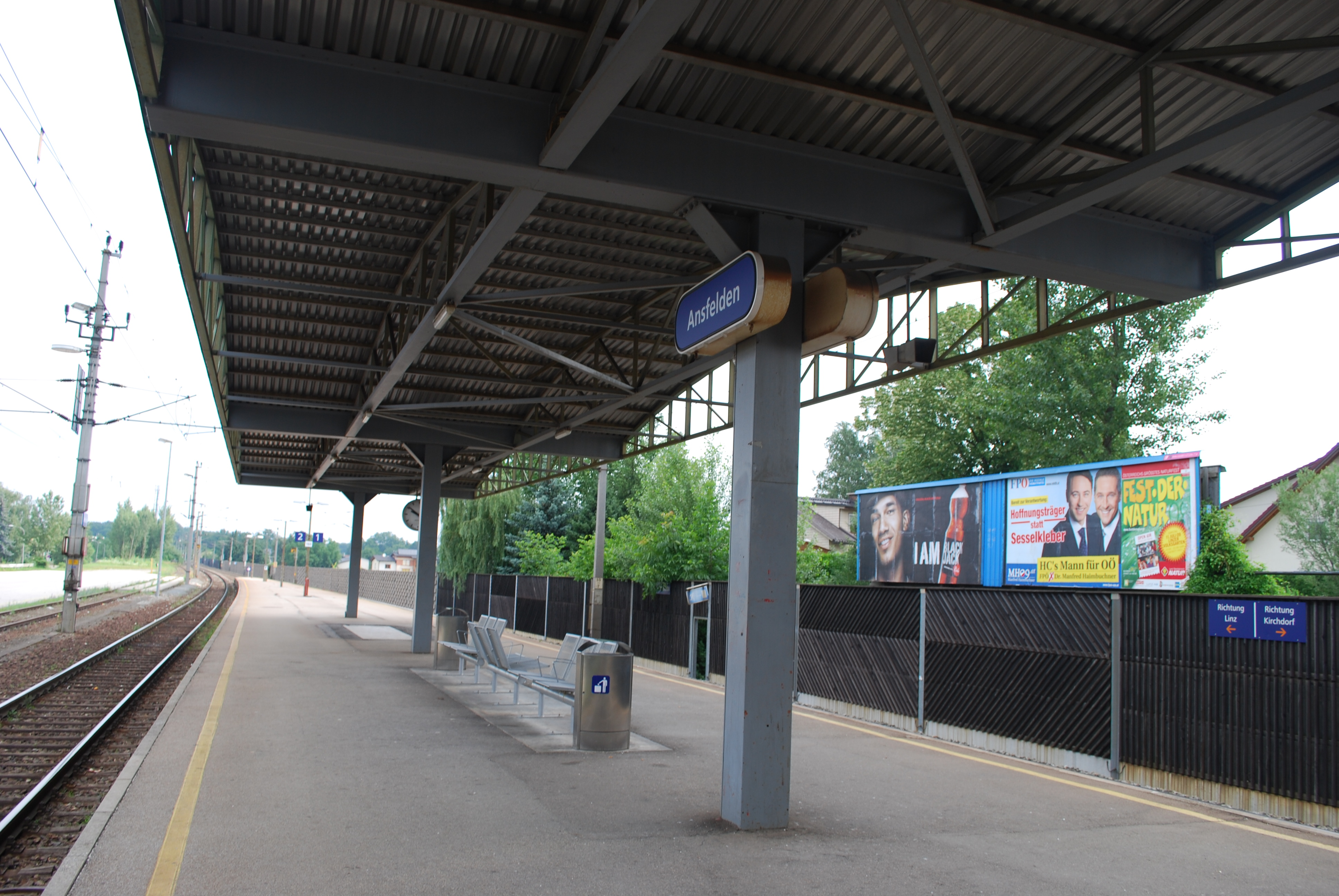 Trainstation Ansfelden